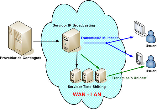 Diagram for NVR(Network Video Recorder Service))